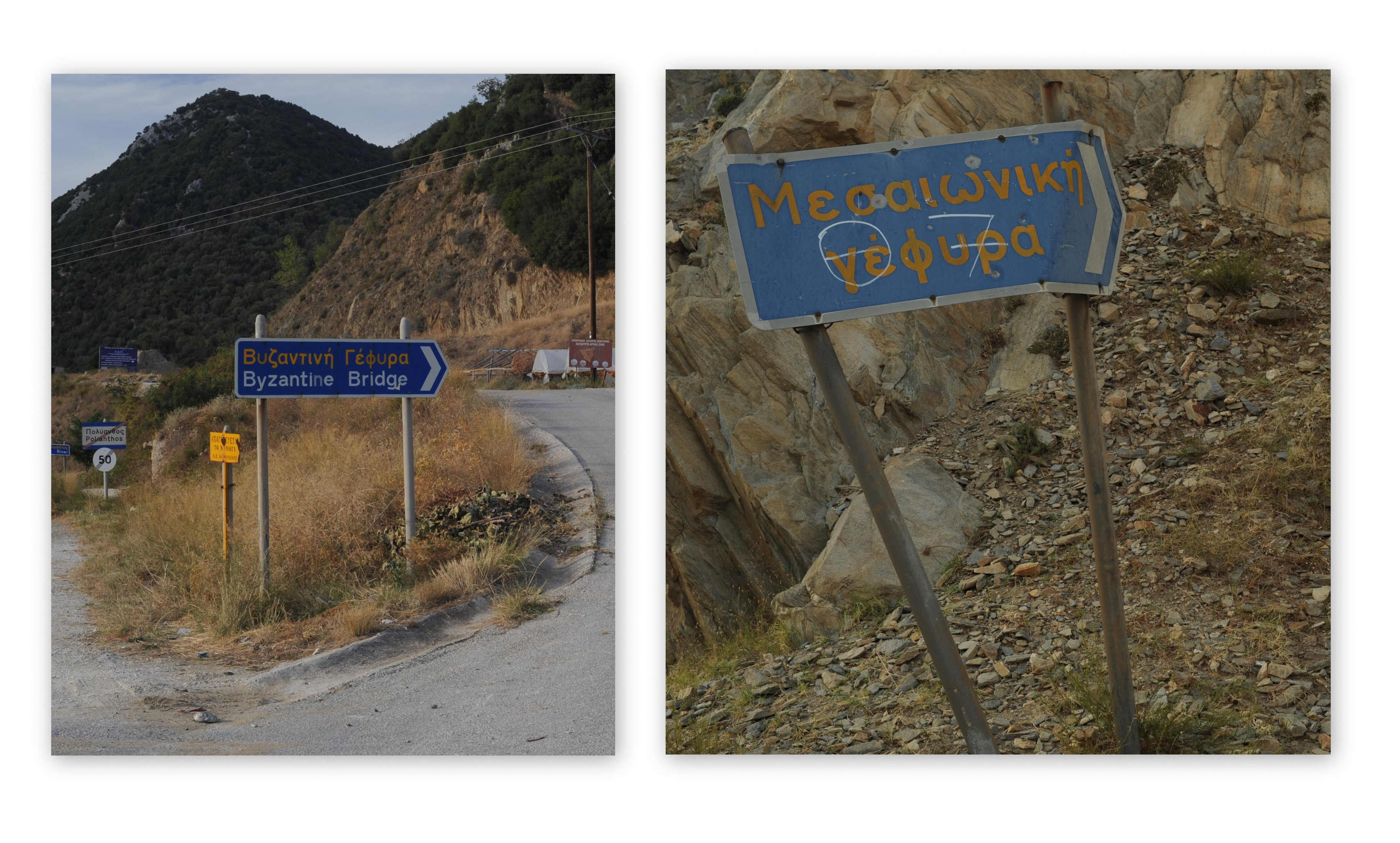 Kompsatos river bridge sign, Rhodope, Thrace, Greece.